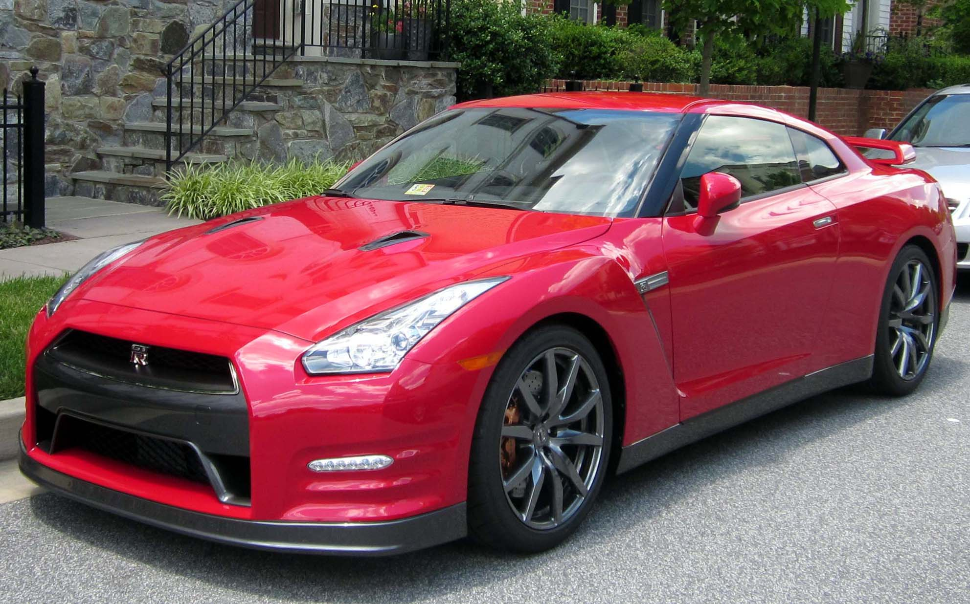 2013 Nissan GT-R photographed in Fulton, Maryland, USA.